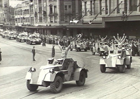 Obtained via: The photo's online record states that it's copyright status is 'clear'. The photo was taken in 1942. AWM photo caption: Sydney, Australia. 1942-12-12. Halt. The Commanders of these armoured cars give the signal to stop as there is a hold up in the procession of Australian-made munitions and war equipment through the streets of Sydney. The vehicles in the rear are the new cruiser tanks seen in public for the first time. nearly 400 vehicles of various types took part.